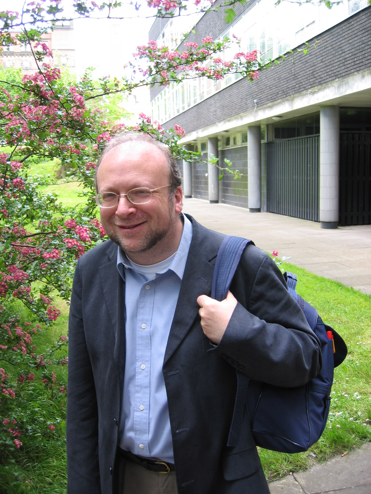 Samson Abramsky, computer scientist, at Mathematical Foundations of Programming Semantics, Birmingham